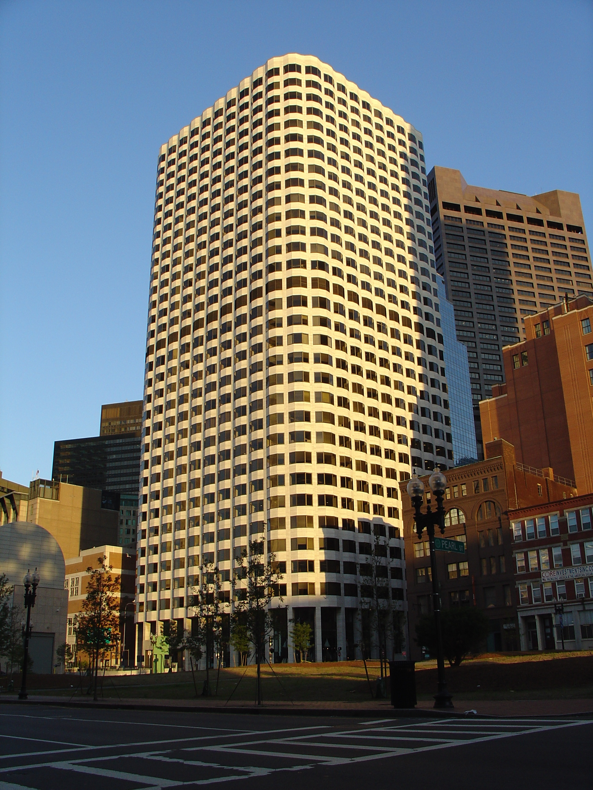 Category:Images of Boston, Massachusetts Category:Skyscrapers in Boston Category:1971 architecture (Original text: Keystone Building in Boston, Massachusetts.)